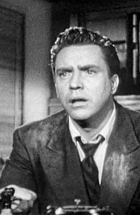 Edmond O'Brien from D.O.A. (1950 movie)